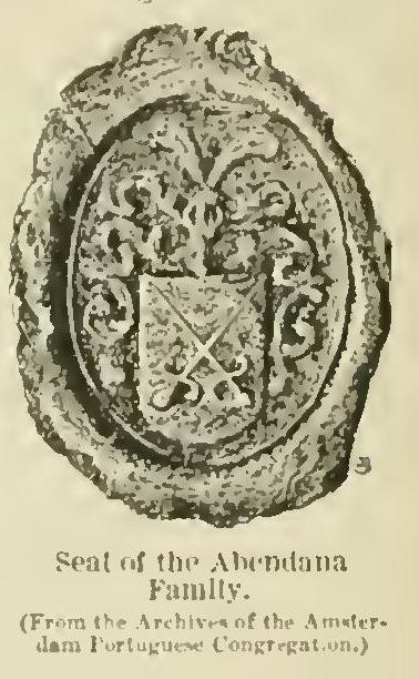 Seal of the Abendana Family.(From the Archives of the Amsterdam Portuguese Congregation). The name of a number of Spanish- and Portuguese-Jewish (Sephardic) families in Amsterdam and London. The first person to assume it was the Marano Francisco Nuñez Pereyra, who fled from Spain through dread of the Inquisition at the beginning of the seventeenth century and settled in Amsterdam, where he married his cousin Justa Pereyra. The children born of this marriage died, and, their death being attributed by his wife to the fact that he had not been received into the Covenant of Abraham, they separated until that rite was performed. He took the name David Abendana, and was one of the founders of the first synagogue in Amsterdam. He died Feb. 14, 1625. He left two sons, Manuel and Abraham. Manuel was ḥakam of the Amsterdam congregation and died June 15, 1667, having contributed much to the spiritual edification of his brethren. Besides those mentioned below, the names of other members of the Abendana family will be found in the lists at the end of D. H. de Castro, "De Synagogue de Portugeesch-Israelietisch Gemeente te Amsterdam, 1875." There is a modern Spanish name "Abendann" ("Jew. Quart. Rev." x. 520).